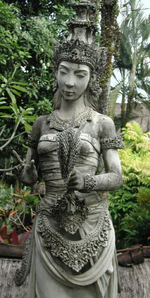 Statue of Dewi Sri — Ubud, Bali